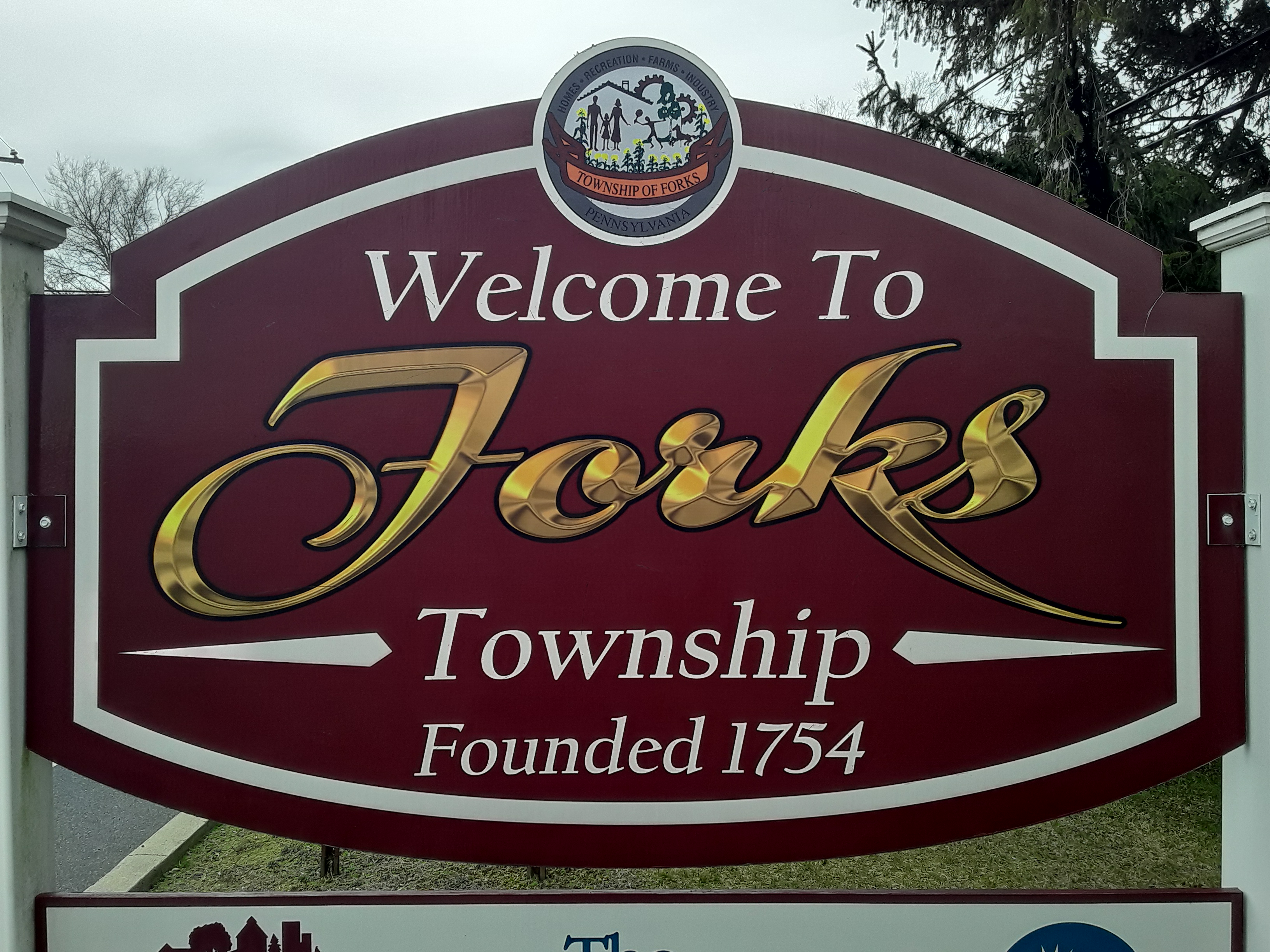 The "Welcome To Forks Township" sign at the border of Forks Township, Northampton County, Pennsylvania, USA.